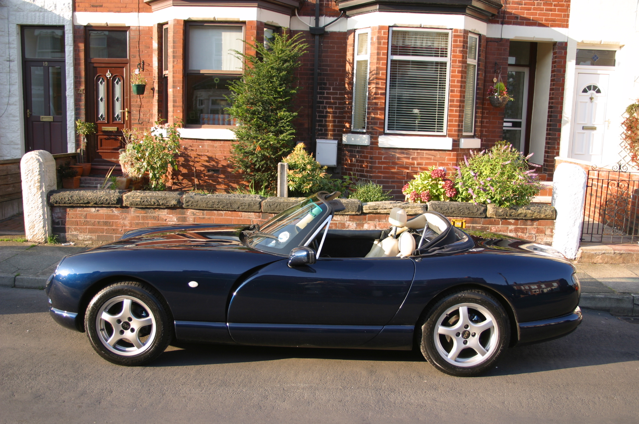 My Chimaera, 1994, Starmist Blue. 4 litre. Sadly missed.